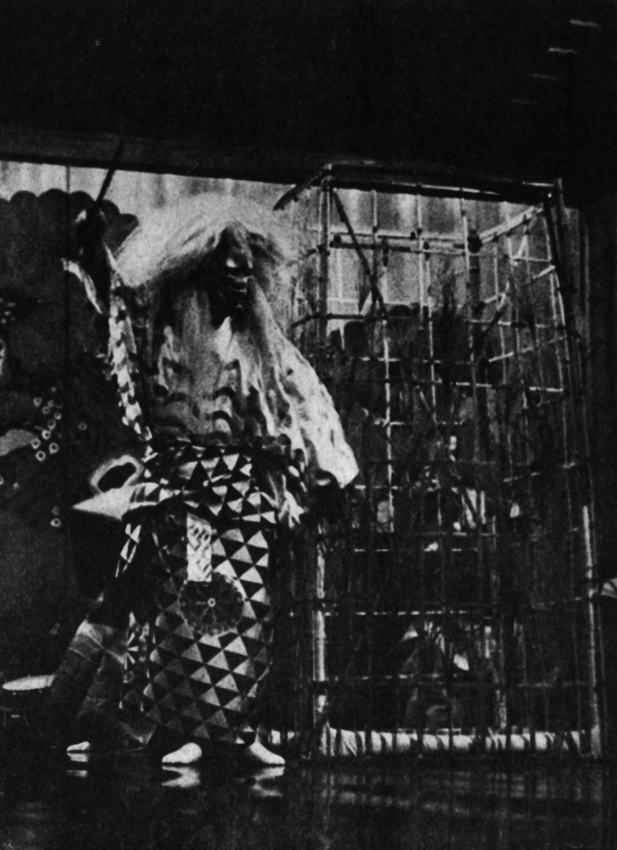 stage photo: Noh play Kurozuka, HOSHO Kuro Shigefusa